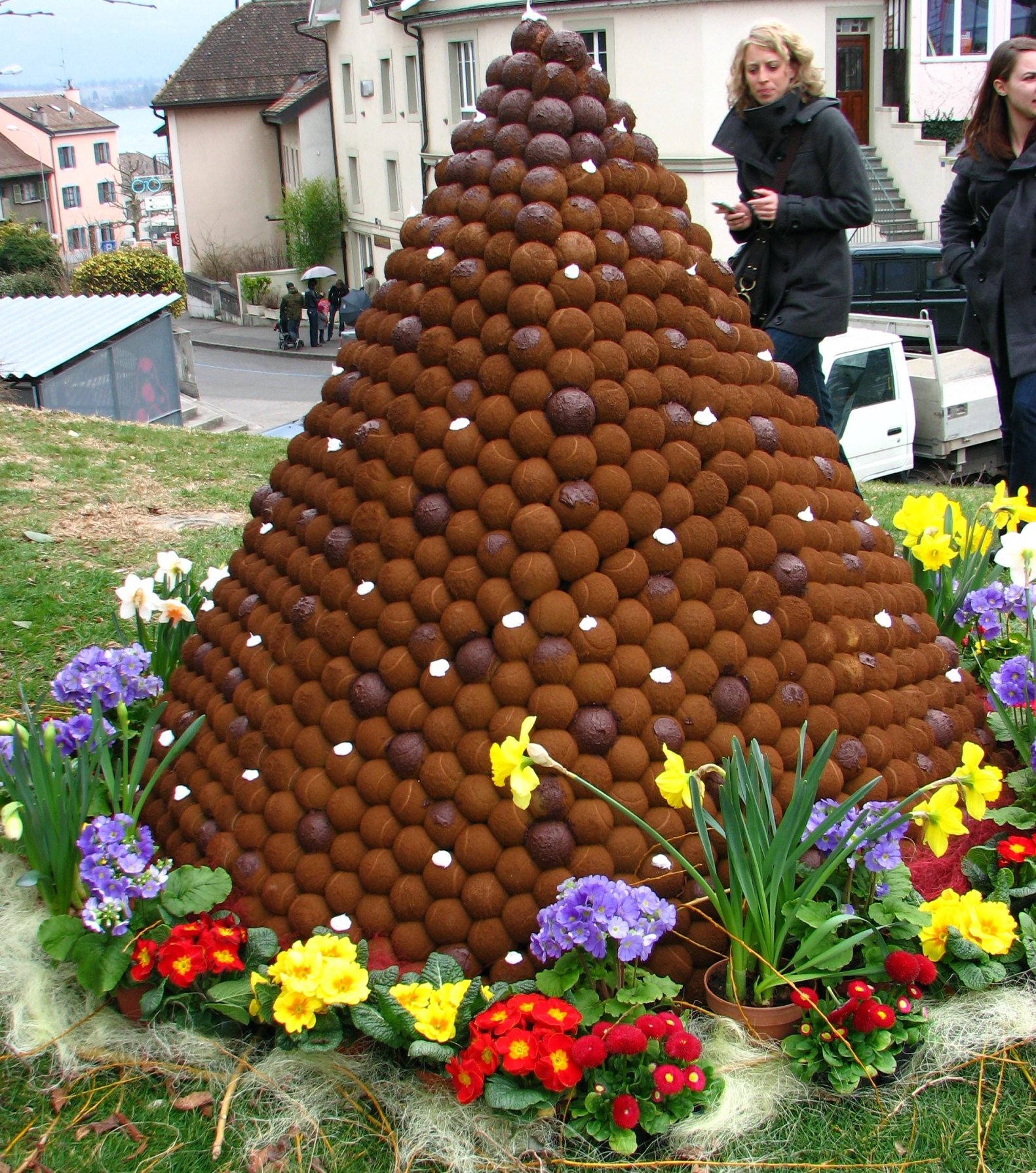 Display at the Chocolate Festival in Versoix, GE, Switzerland